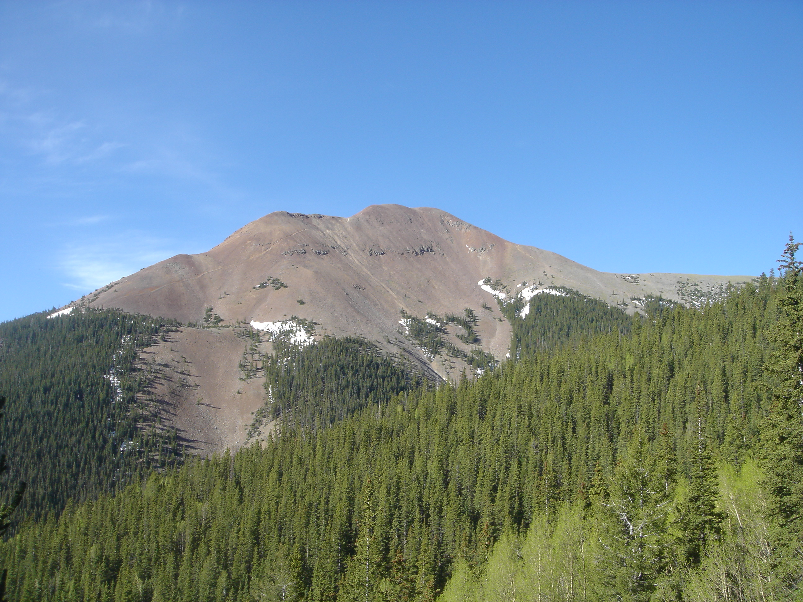 Picture of Baldy Mountain from Copper Park camp 2007